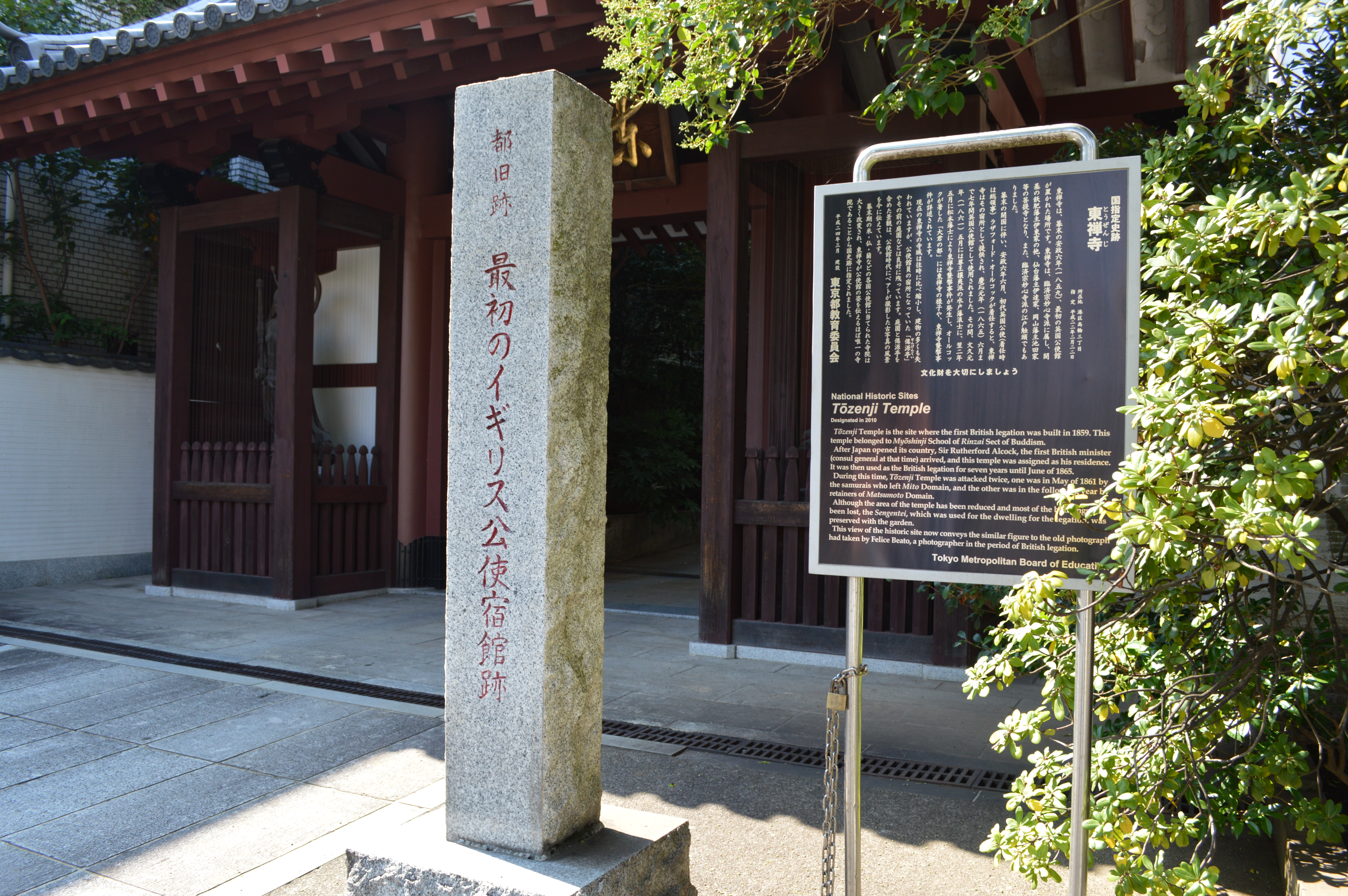 Memorial of the first British legation in Japan